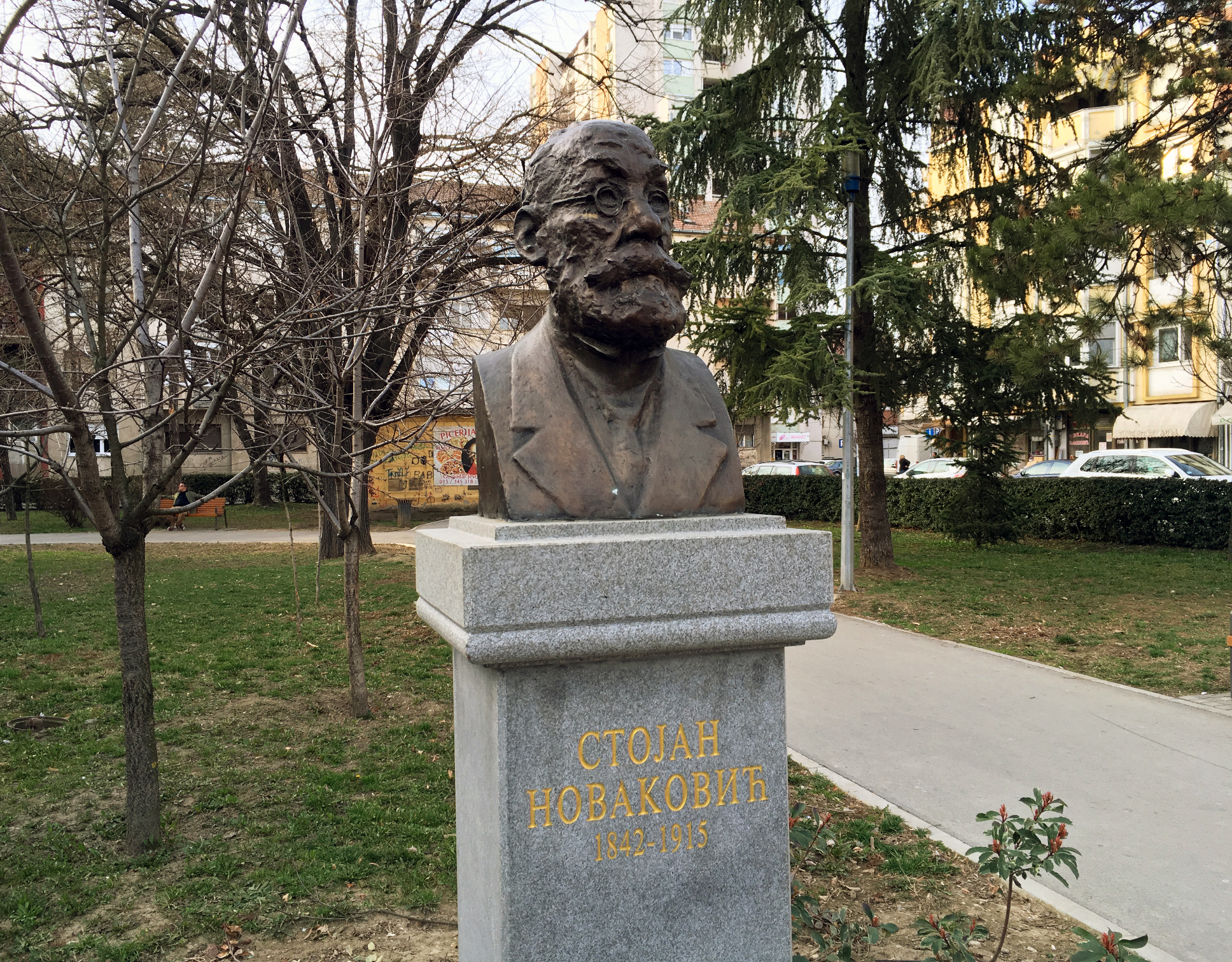 Monument to Serbian politician, writer and historian Stojan Novaković, Šabac.